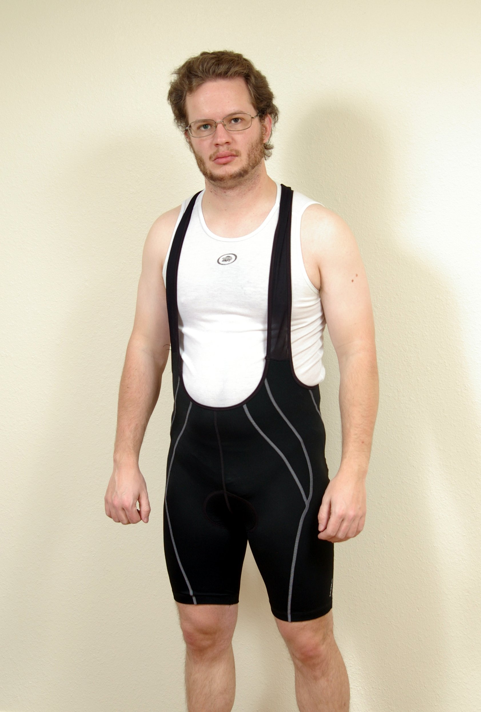 An example of bibshorts and an undershirt. Normally a jersey would be worn on top.